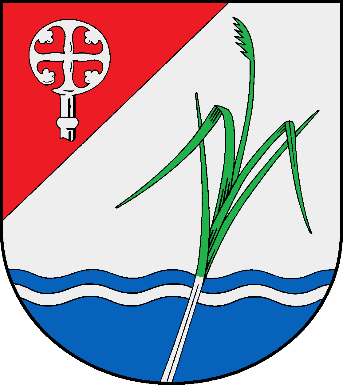 Coat of arms of the municipality Mözen in Schleswig-Holstein, Germany.